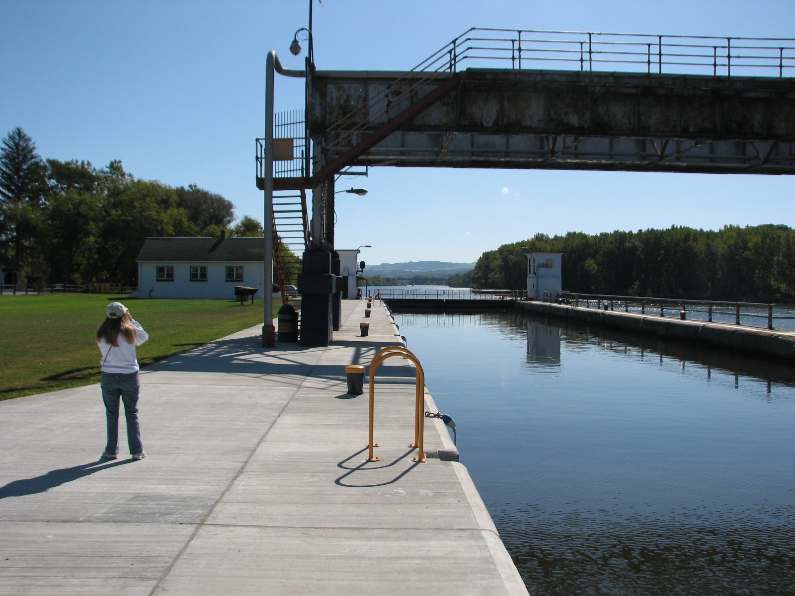 Amsterdam New York west of Albany, an old mill town once known for carpets and cabbage patch dolls and Kirk Douglas